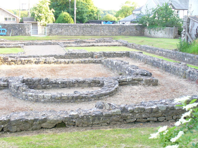 Former Temple, Caerwent Roman building alignments showing former room lines in the old temple.